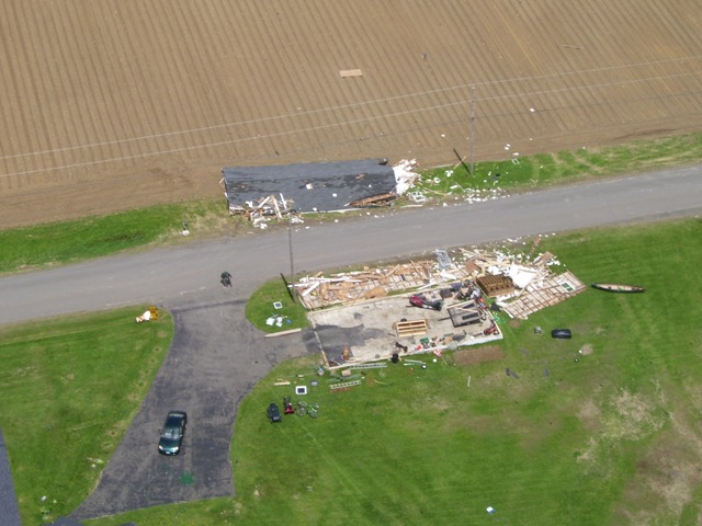 Aerial photo of a mobile home destroyed by an EF0 tornado in Westfield, Maine on May 31, 2009.